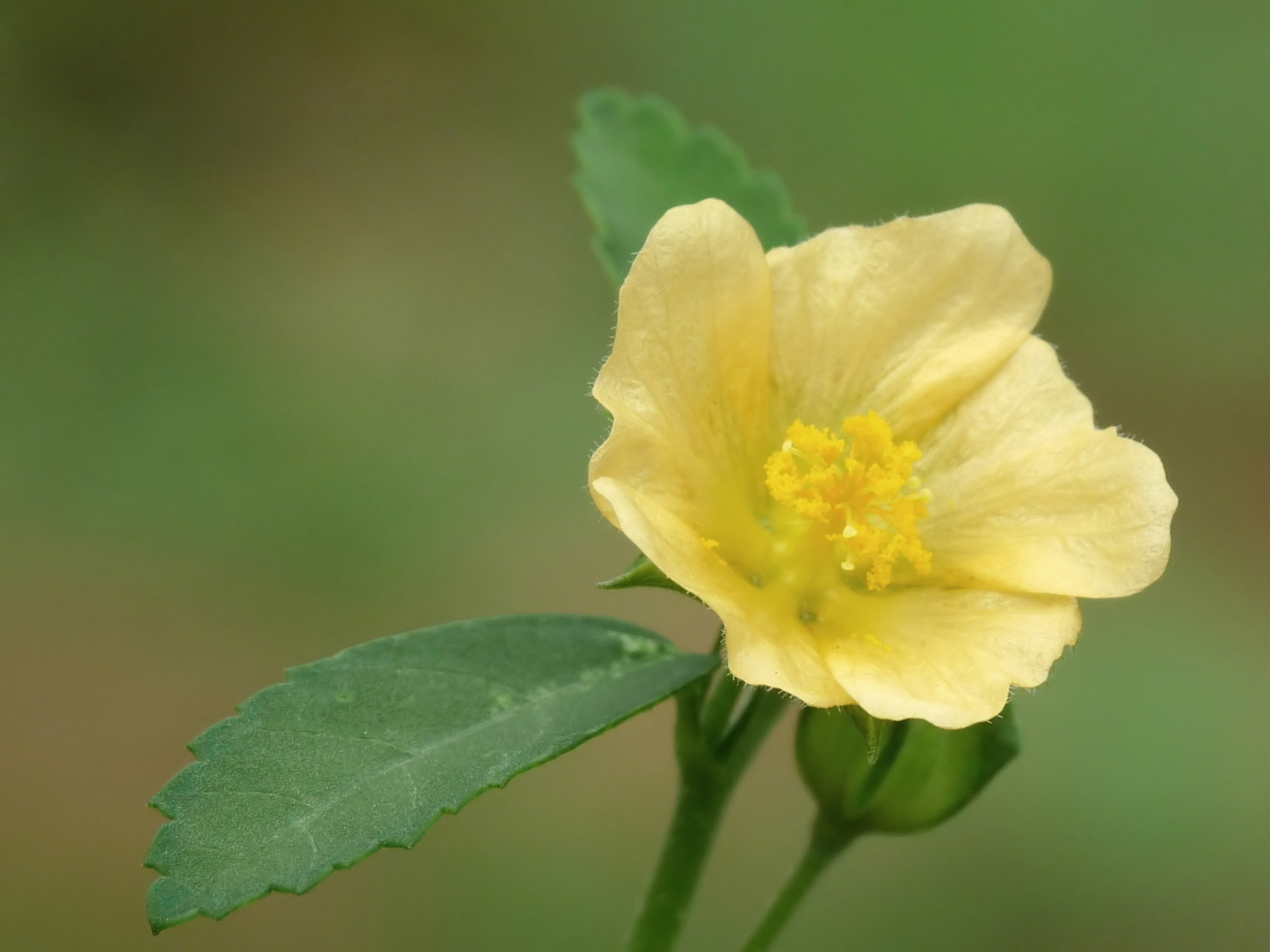 Sida rhombifolia, Arrowleaf sida, is a perennial or sometimes annual plant in the family Malvaceae, native to the New World tropics and subtropics. Other common names include Paddy’s lucerne, Jelly leaf, and also somewhat confusingly as Cuban jute, Queensland hemp, and Indian hemp (although S. rhombifolia is not related to either jute or hemp). It is used in Ayurvedic medicine, where it is known as kurumthotti. The stems are erect to sprawling and branched, growing 50 to 120 centimeters in height, with the lower sections being woody. The dark green, diamond-shaped leaves are arranged alternately along the stem, 4 to 8 centimeters long, with petioles that are less than a third of the length of the leaves. They are paler below, with short, grayish hairs. The apical half of the leaves have toothed or serrated margins while the remainder of the leaves are entire (untoothed). The petioles have small spiny stipules at their bases. The moderately delicate flowers occur singly on flower stalks that arise from the area between the stems and leaf petioles. They consist of five petals that are 4 to 8 millimeters long, creamy to orange-yellow in color, and may be somewhat reddish in the center. Each of the five overlapping petals are asymmetric, having a long lobe on one side. The stamens unite in a short column. The fruit is a ribbed capsule, which breaks up into 8 to 10 segments. The plant blooms throughout the year. This species is usually confined to waste ground, such as roadsides and rocky areas, stock camps or rabbit warrens, but can be competitive in pasture, due to its unpalatability to livestock.